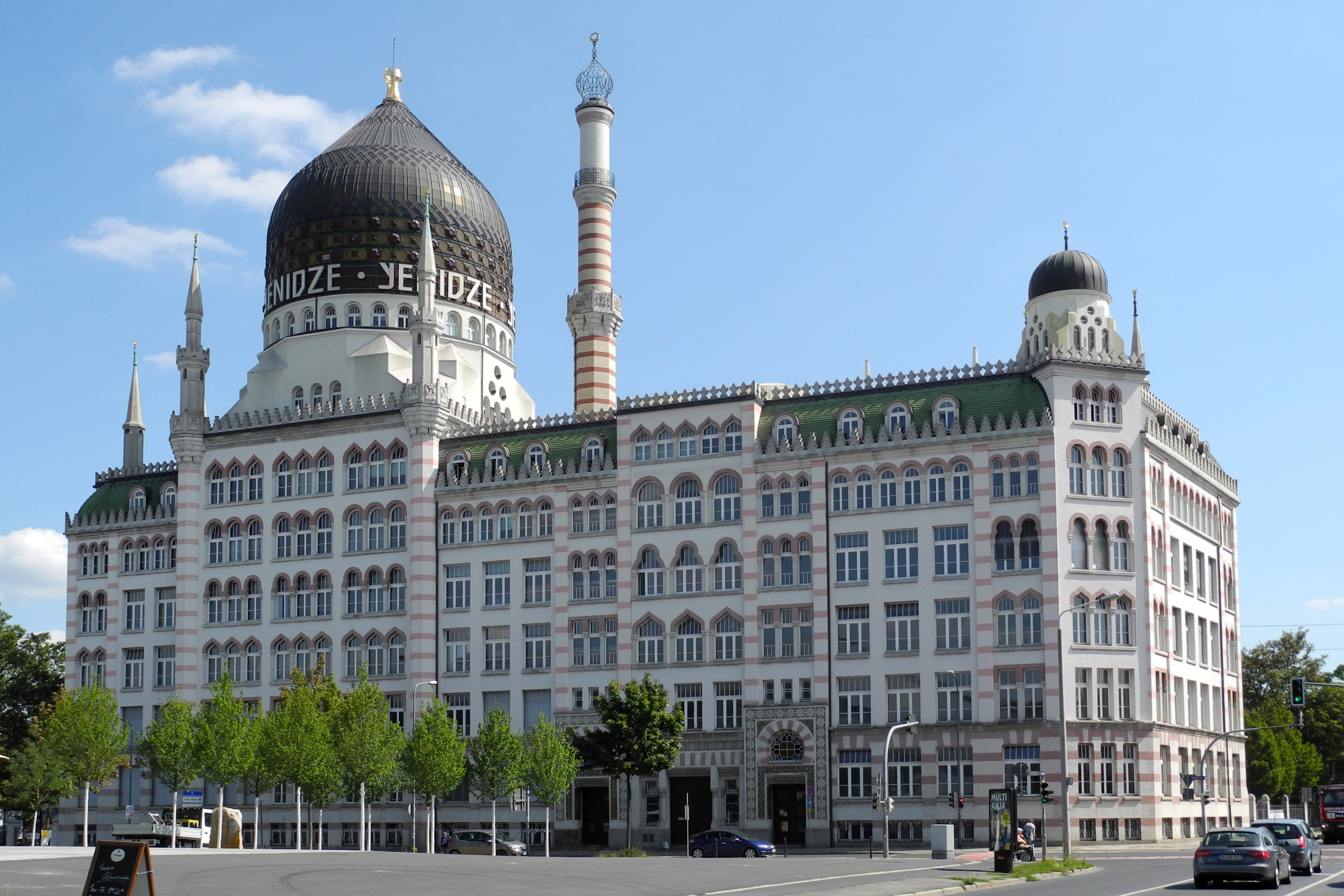 Former cigarette factory ‘Yenidze’, now serving as office block and restaurant